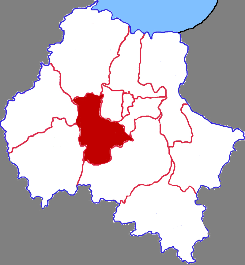 Location of Changle county in Weifang City, China